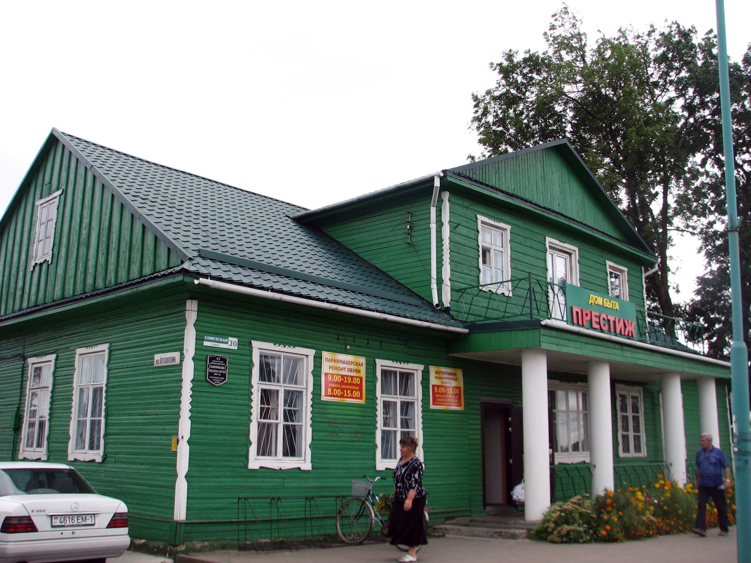 Former pharmacy building in Savieckaya street, Pruzhany. 1828